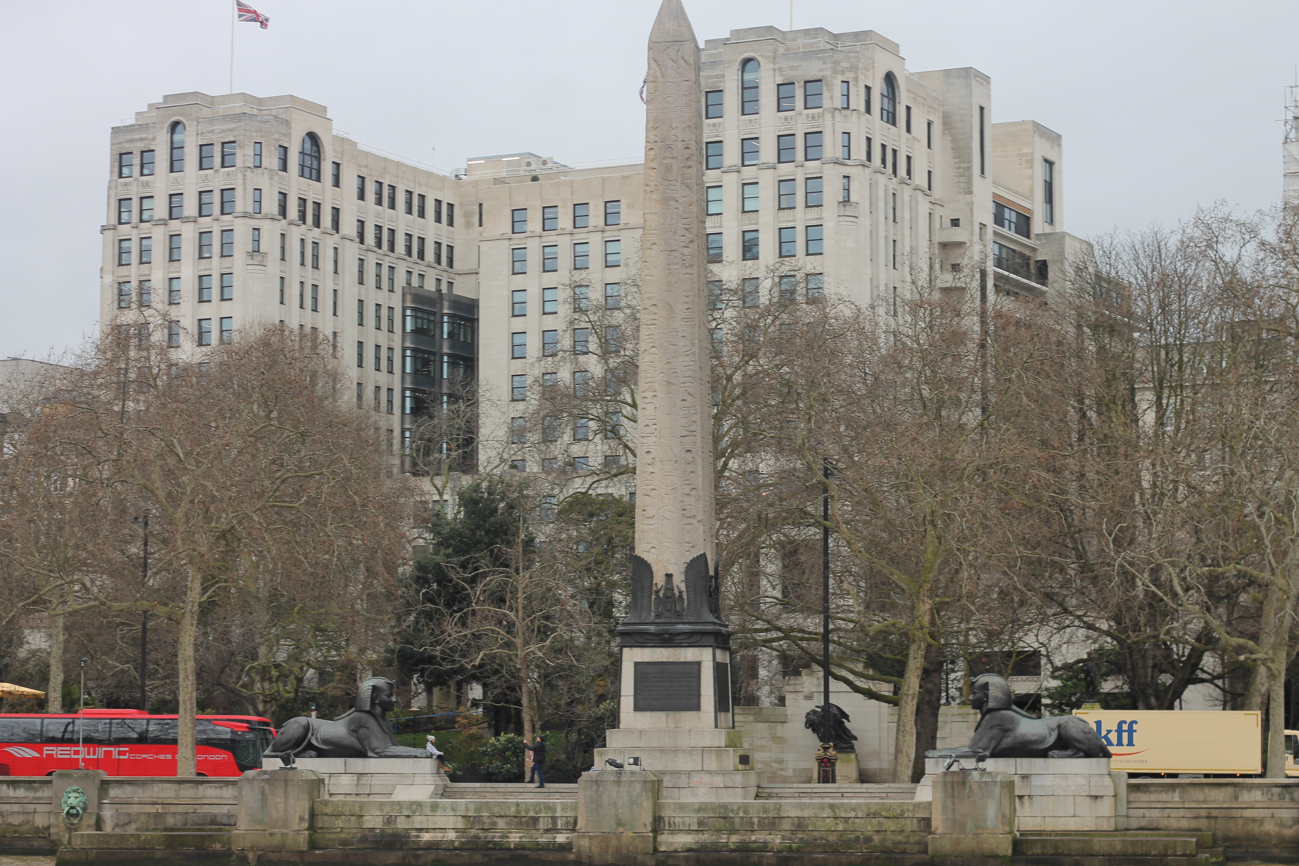 A view of Cleopatra's Needle taken from the Thames River in London in February, 2020.